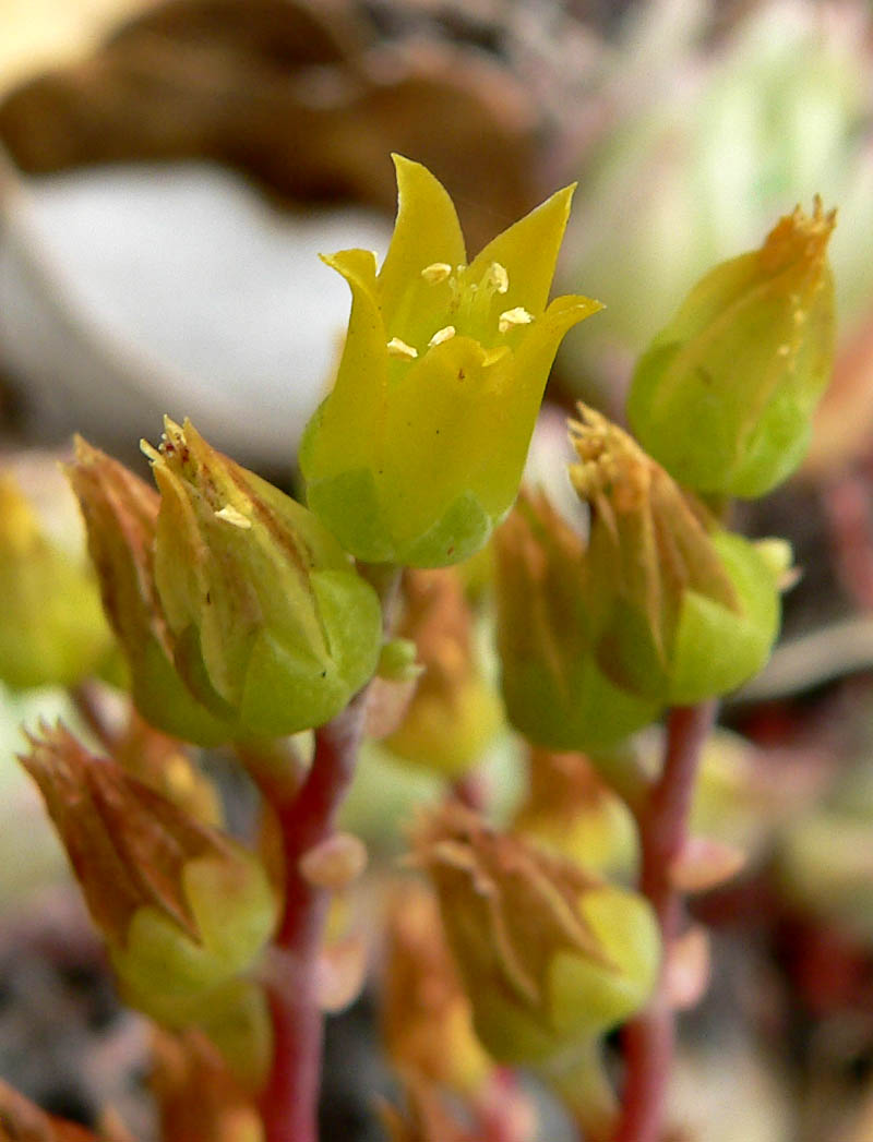 Photo of Dudleya caespitosa at the Regional Parks Botanic Garden